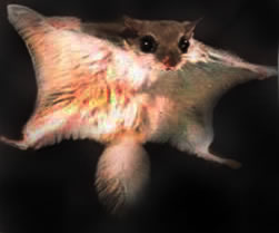 Siberian flying squirrel (Ptermonmys volans) in Estonia